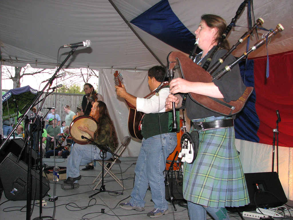 The Celtic band Clandestine at the Mucky Duck pub in Houston for St. Patrick's Day, 2007